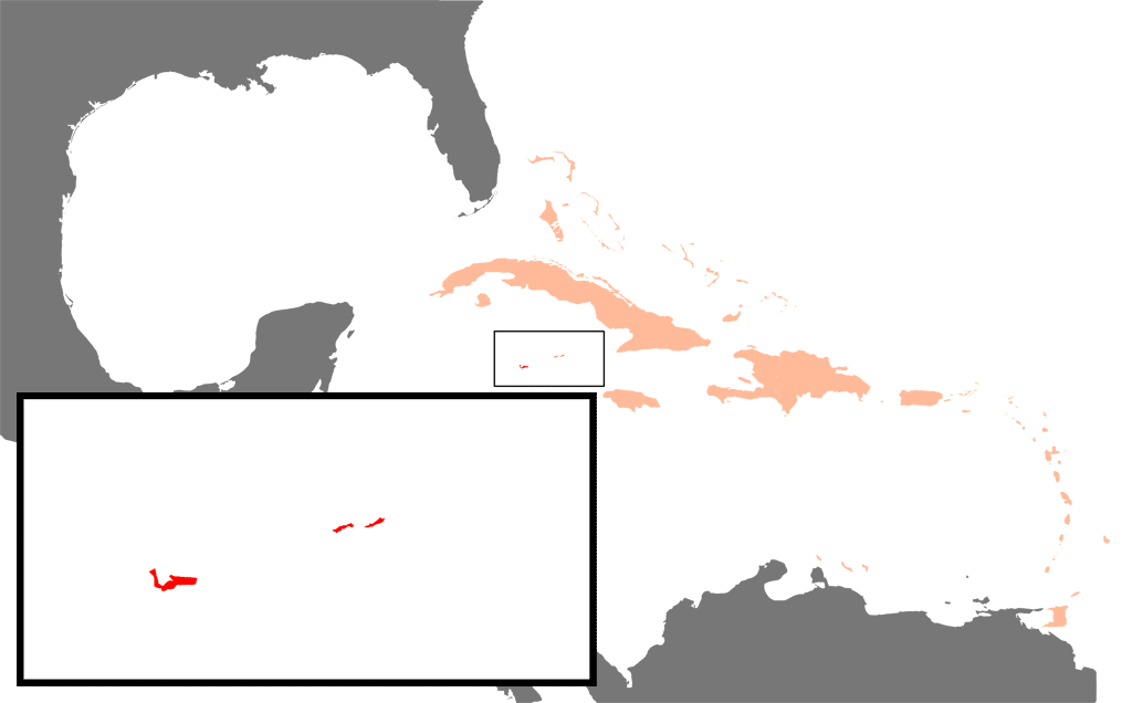 Position of Cayman Islands in the Caribbean